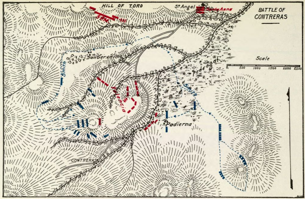 Battle of Contreras